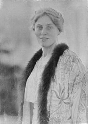 Title Wilson, Jessie (Mrs. Francis B. Sayre), portrait photograph Contributor Names Genthe, Arnold, 1869-1942, photographer Created / Published 1913 Nov. 24. Subject Headings - Sayre, Jessie Woodrow Wilson,--1887-1933. Format Headings Acetate negatives. Portrait photographs. Notes - Address: White House, Washington, D.C. Title devised from Genthe's records. - Purchase; Genthe Estate; 1942 or 1943. - 1933; NY 143v; sleeves Medium 1 negative : safety ; 5 x 7 in. Call Number/Physical Location LC-G412- 0469-004 [P&P]